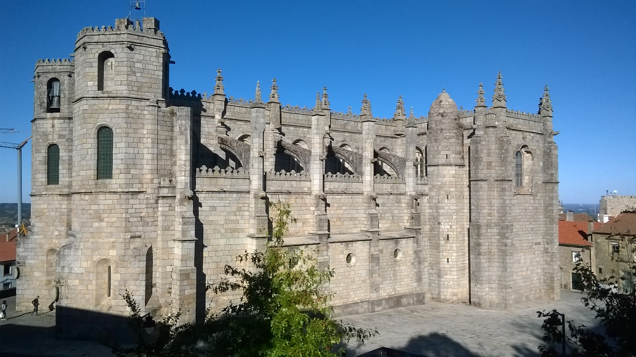 Sé Cathedral, Praça Luís de Camões, Guarda, Portugal